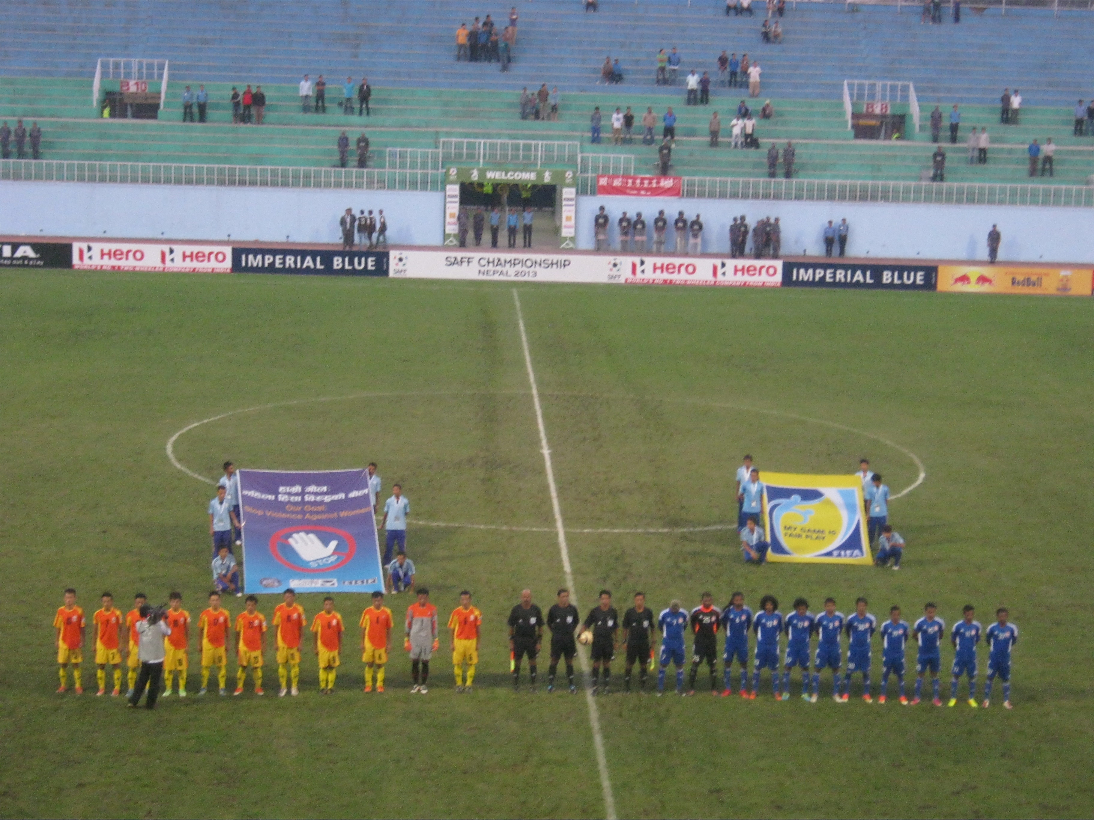 SAFF Championship 2013 Bhutan vs Maldives in Dasarath Stadium